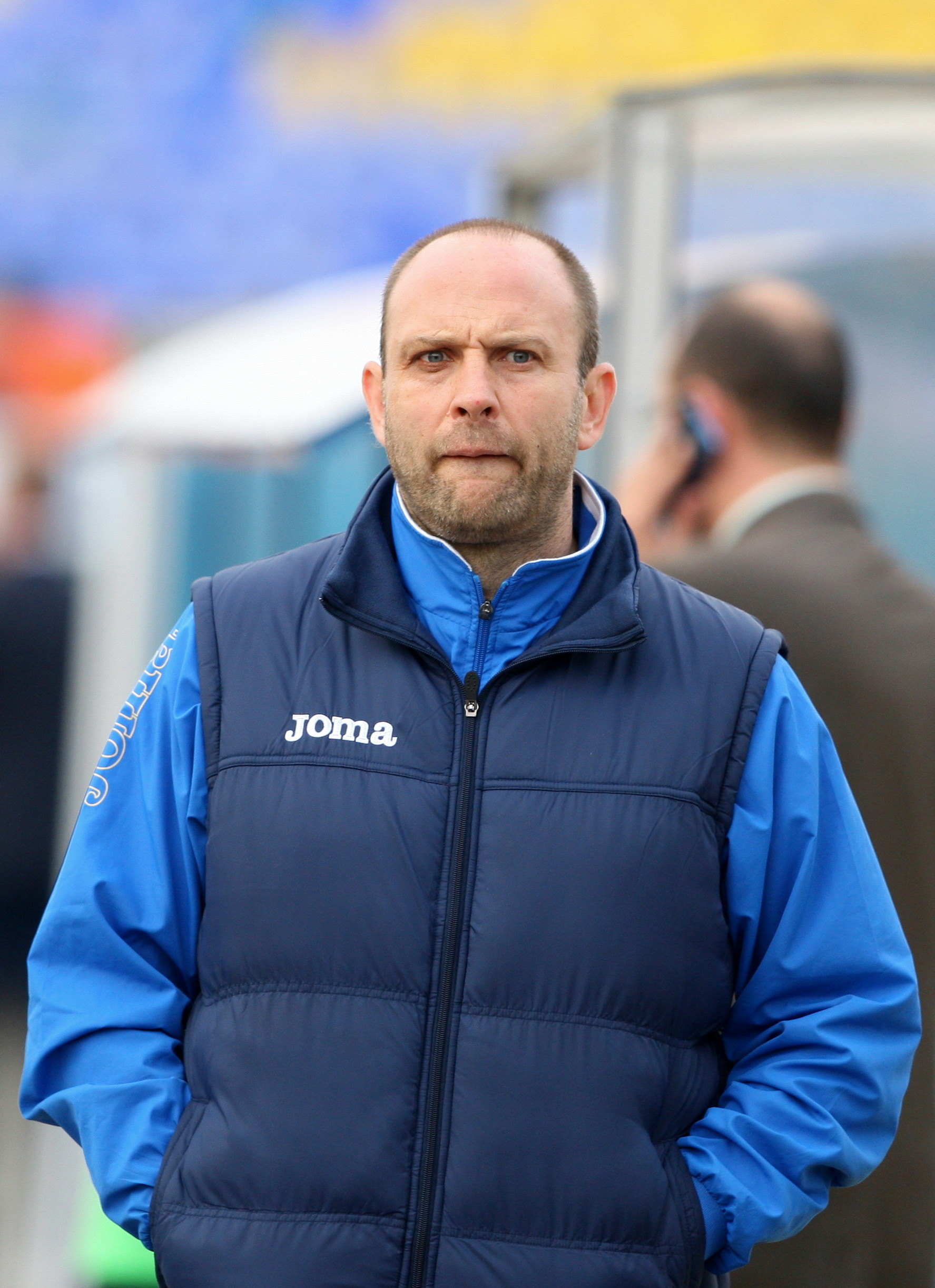 Konstantin Papazov (better known as Titi Papazov), former Bulgarian basketball player and current basketball coach. Former coach of the bulgarian national basketball teams - men and women.